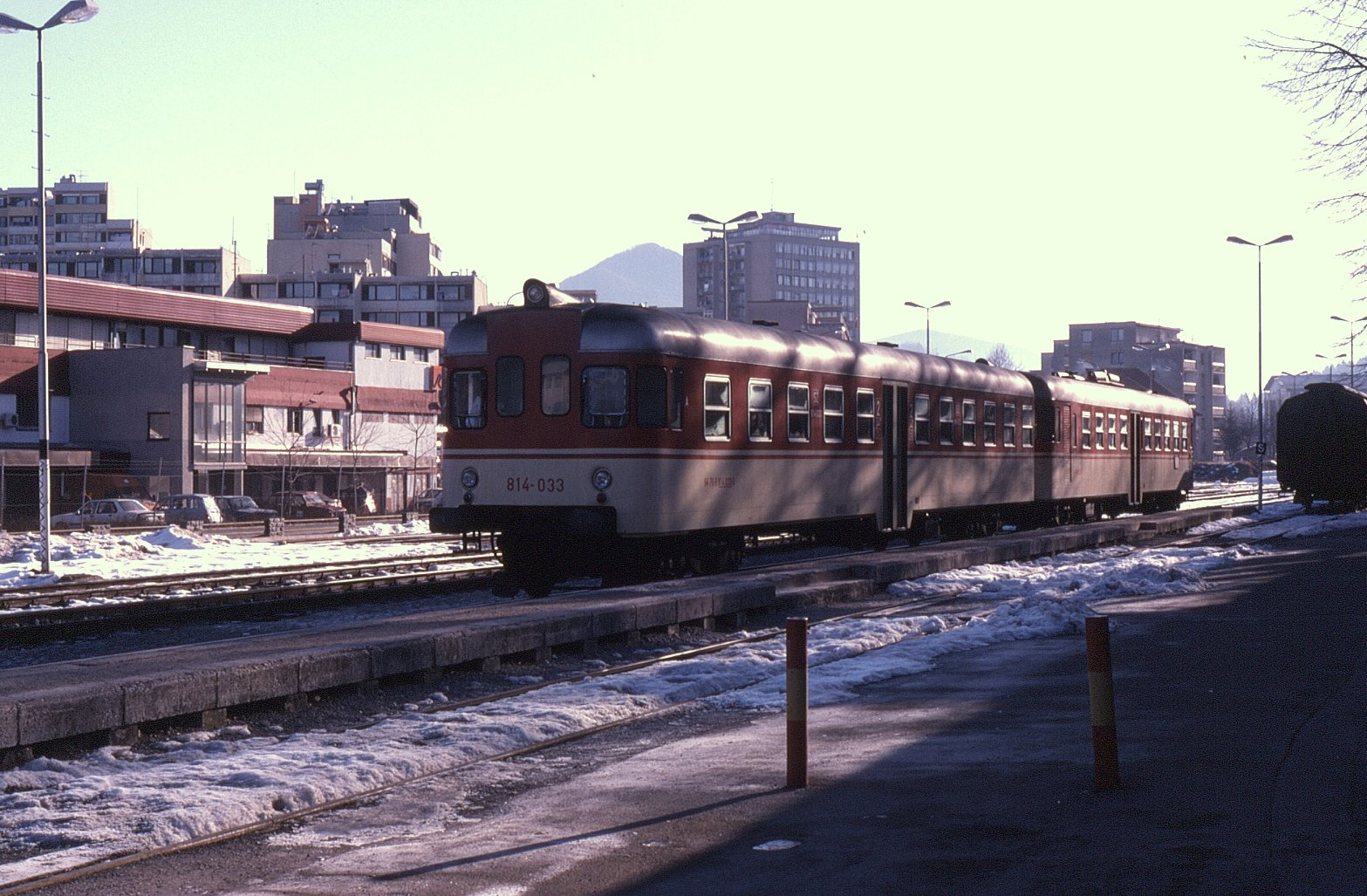 Taken on 10 February 1997, Slovenian Railways (SŽ) DMU is seen at the branch terminus of Velenje on train 3505, 09:50 departure to Celje.